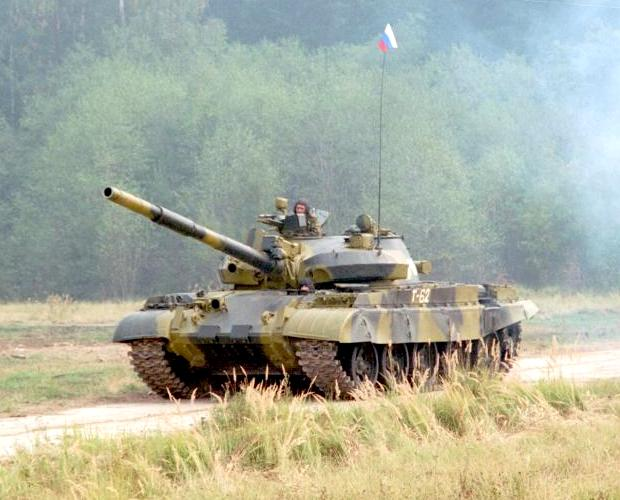 T-62 tank in Russian service.